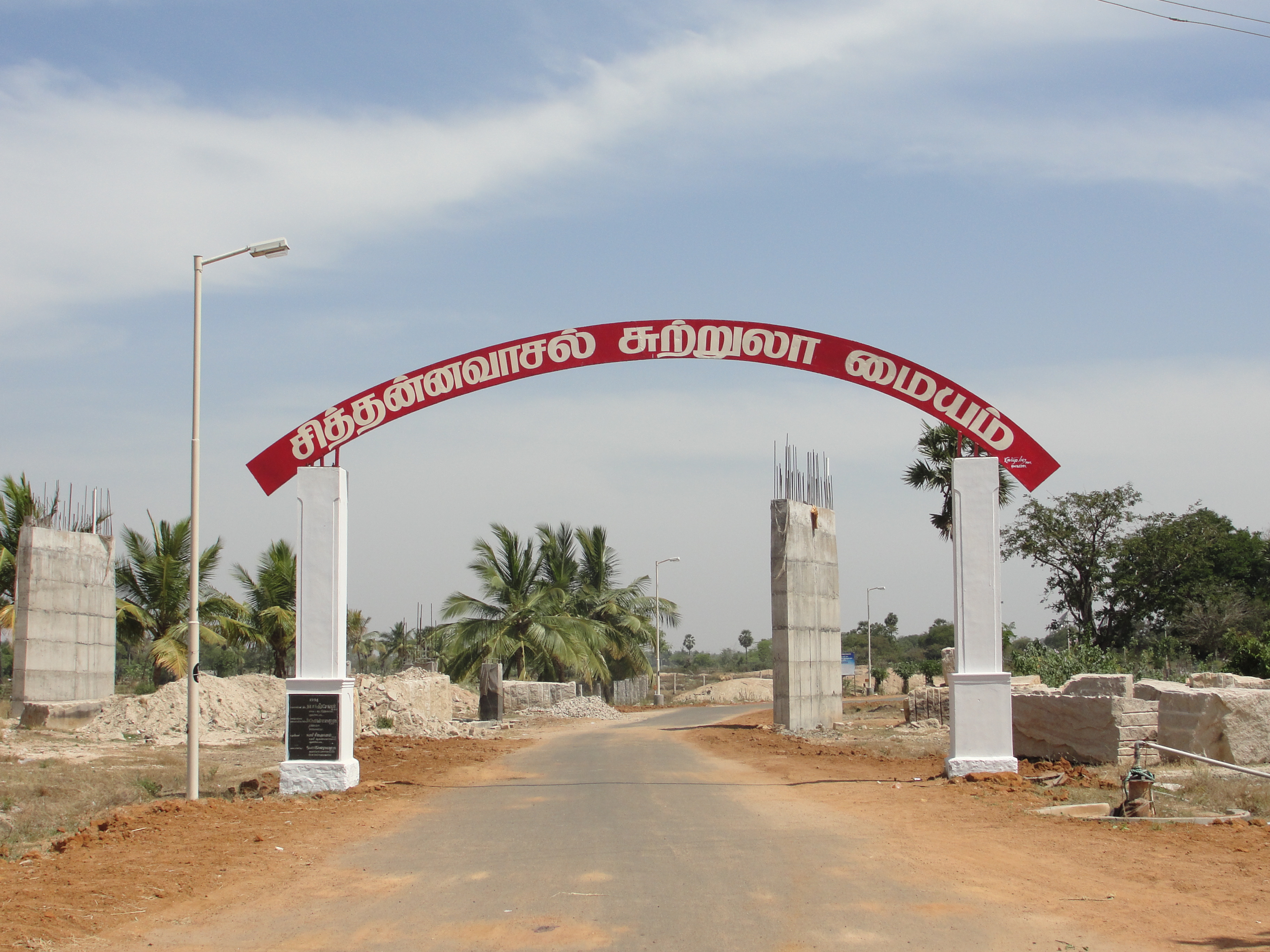 A aesthetic entrance in Sittanavasal